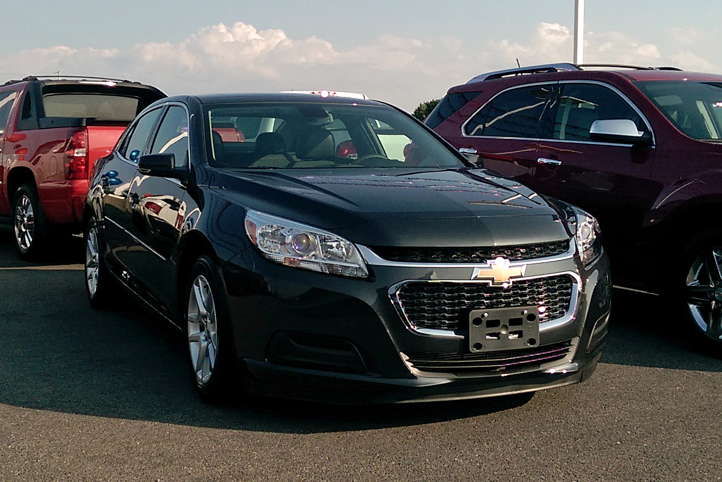 A new 2014 Chevrolet Malibu